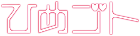 The logo for the manga and anime series Himegoto